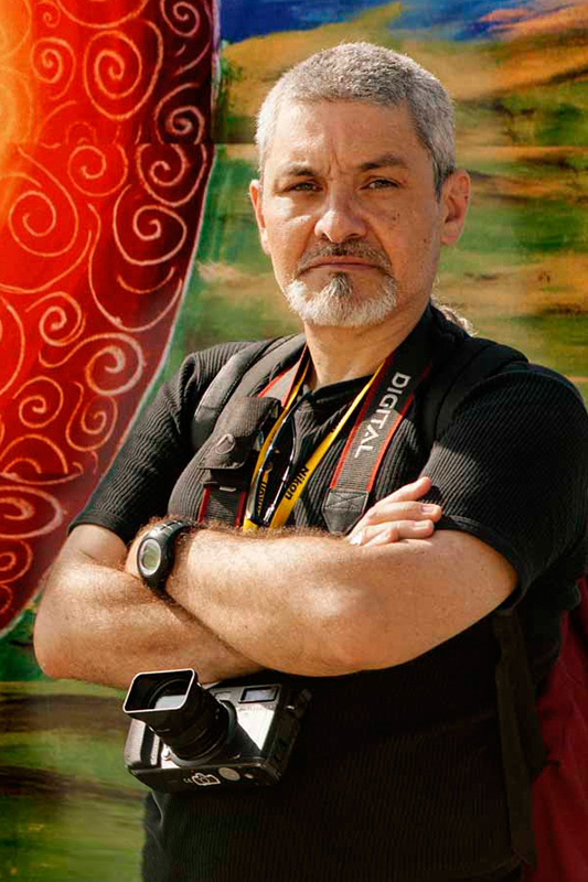 Portrait Jorge Luis Santos Garcia